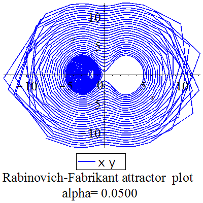 Rabinovich Fabricant xy plot alpha=0.05